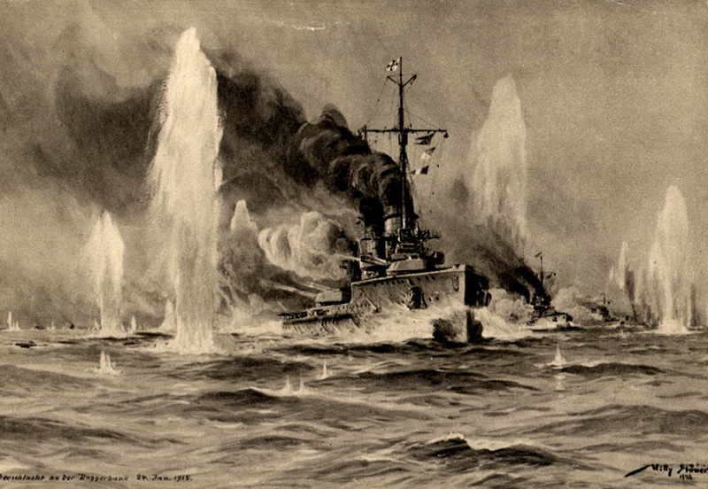 German battlecruisers during the Battle of Dogger Bank 1915.